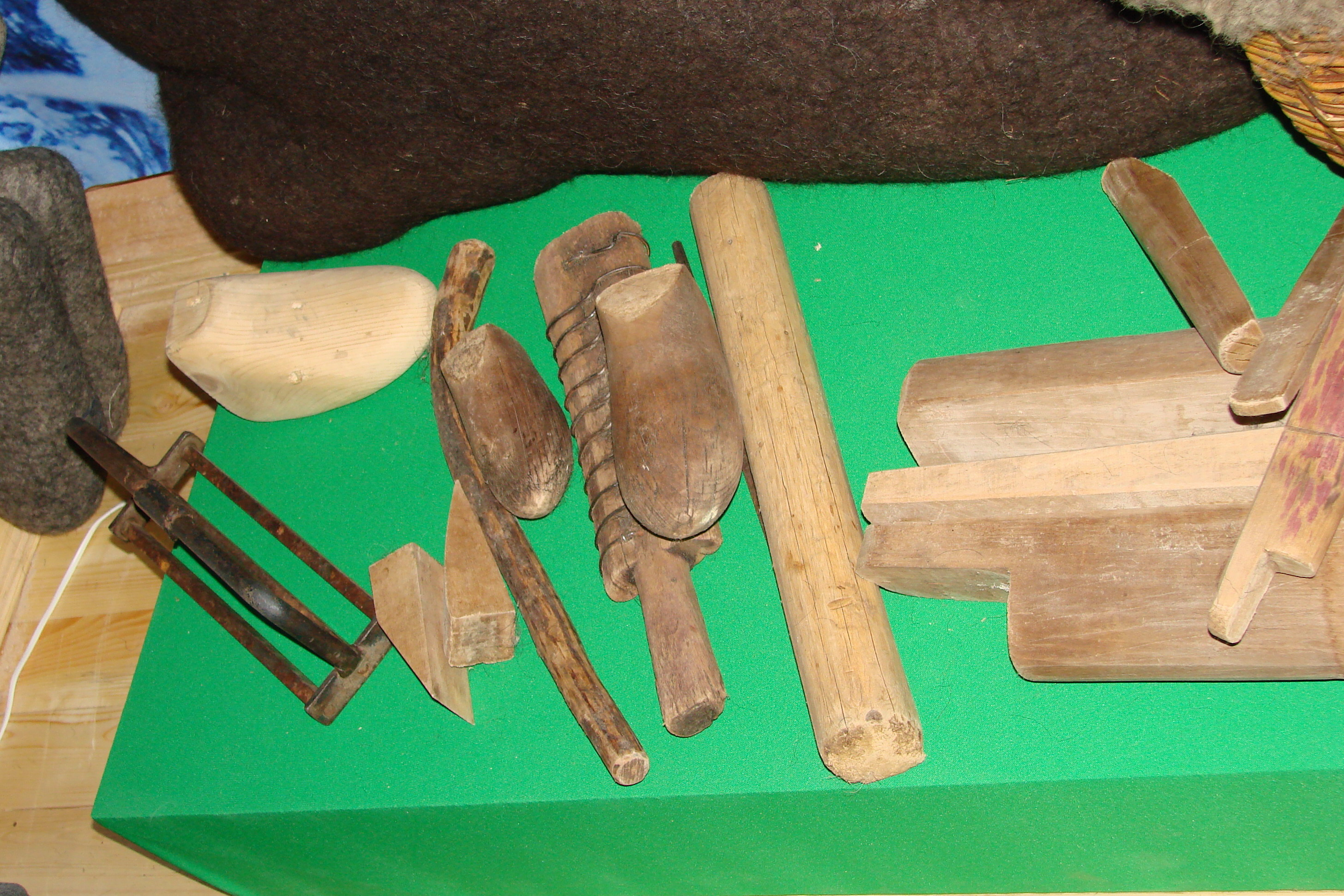 Russia, Vologda, Tools and accessories for hand-made boots — «Valenki»